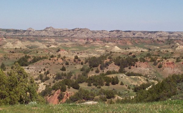 Image taken in Theodore Roosevelt Wilderness, North Dakota, U.S.